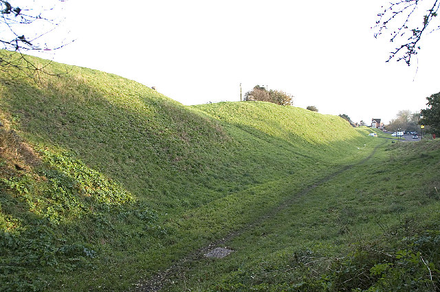 Saxon Walls, Wareham, Dorset Wareham’s Saxon walls are ancient earth ramparts surrounding the town. The walls were built by Alfred the Great in the 9th century to defend the town from Norsemen.